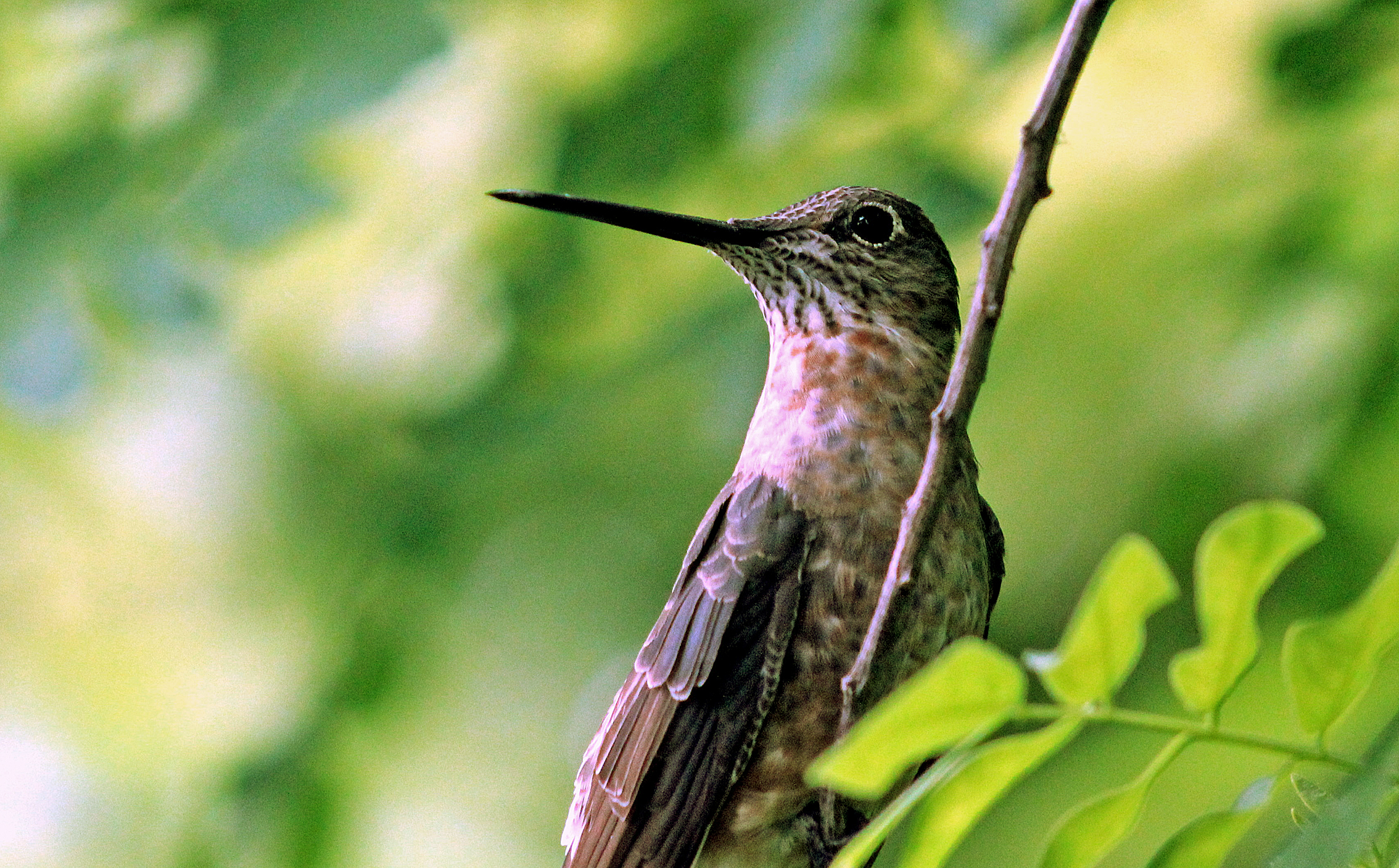 FIELD MARKS-Giant Hummingbirds tend to feed while perched rather than when hovering. Its size makes it unmistakable. Upperparts are dark green with a white rump. Underparts are brownish on the male and greyish on the female.